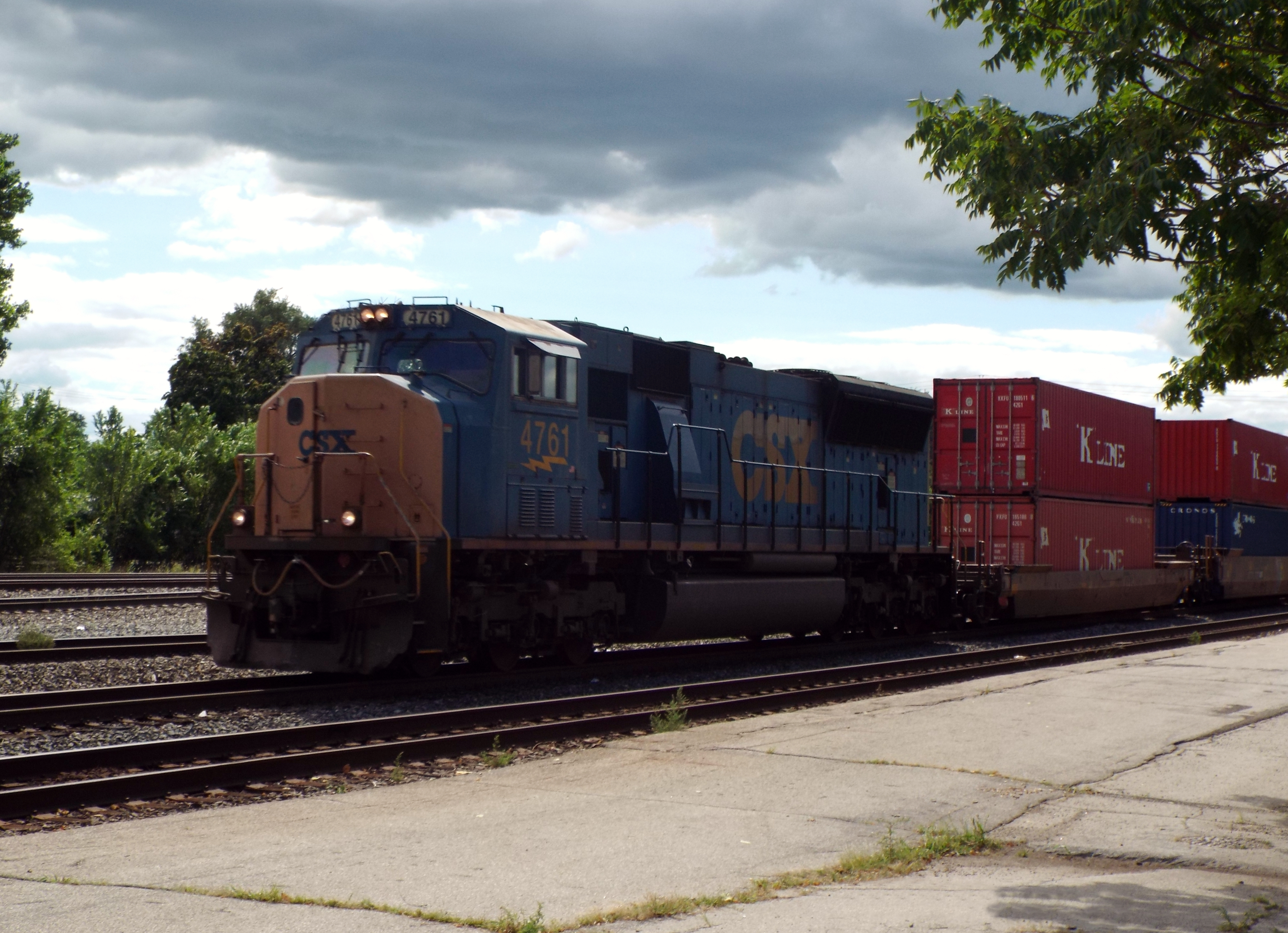 CSX 4761 lead a stack train east ouf of Elkhart, IN. This version of the SD70MAC is the SD45 style flared radiator version of the MAC series.